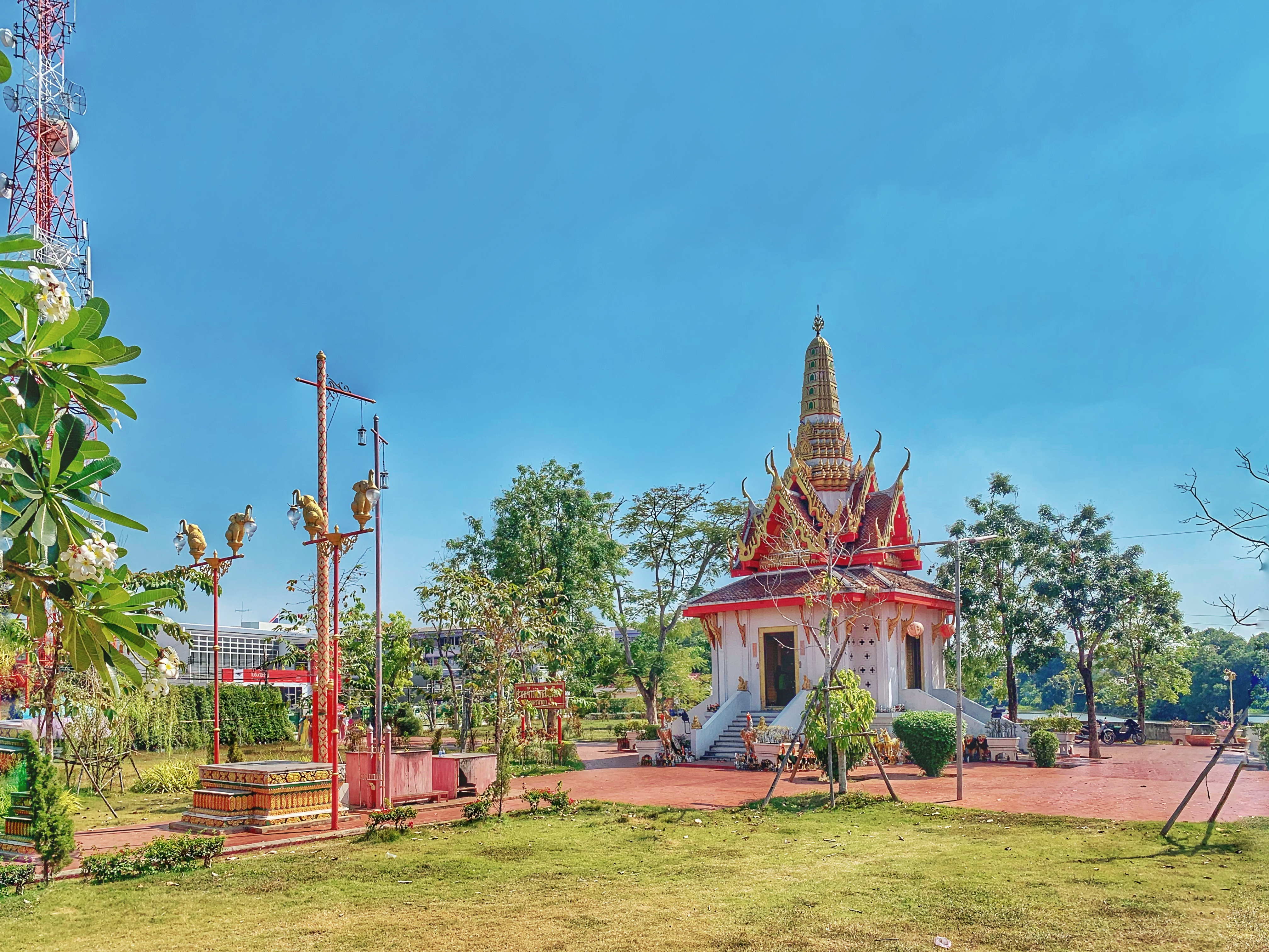 Nakhon Nayok City Pillar Shrine